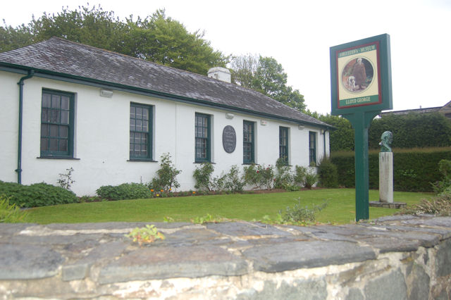 Lloyd George museum at Llanystumdwy Pictured from the road.